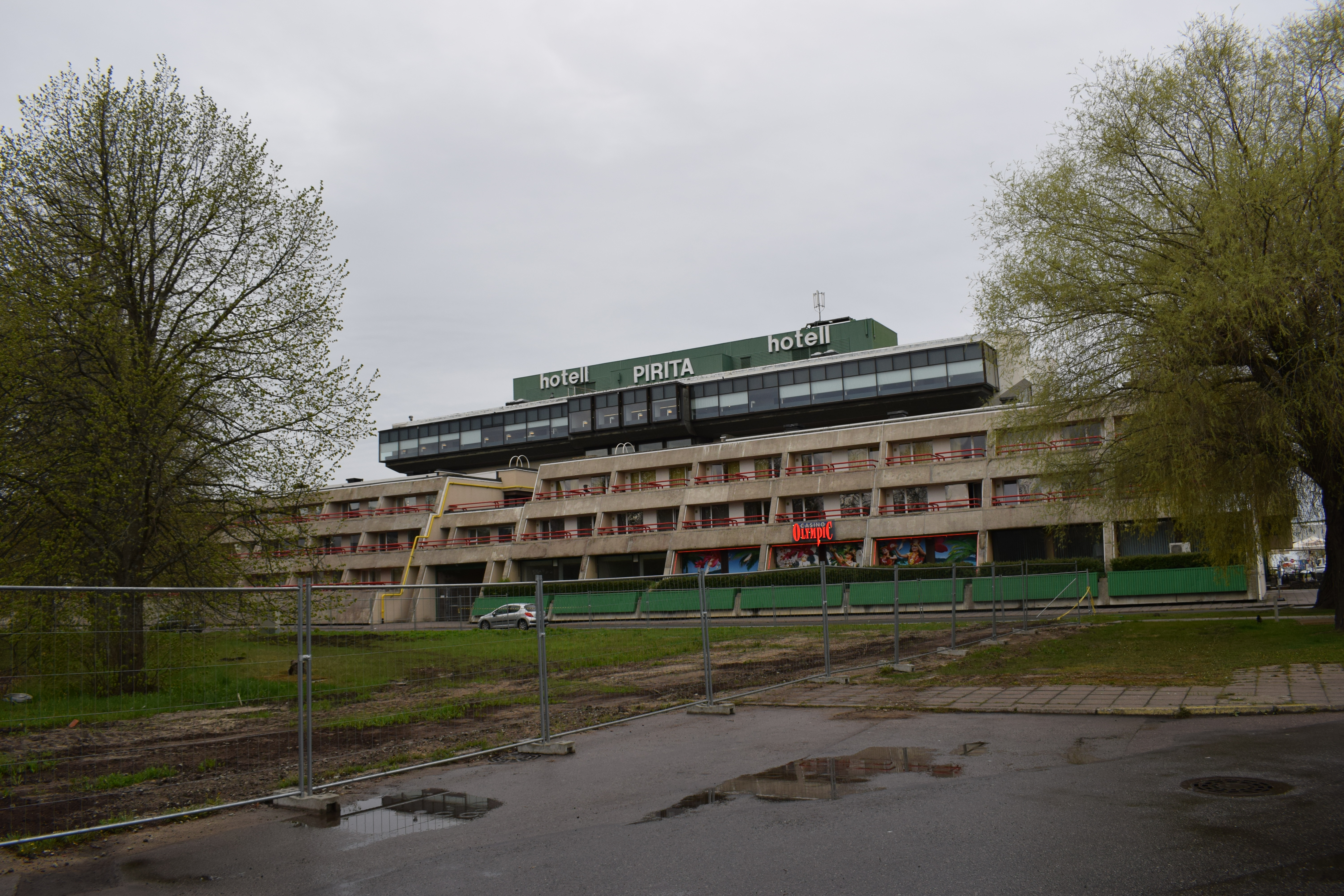 Pirita TOP SPA Hotel